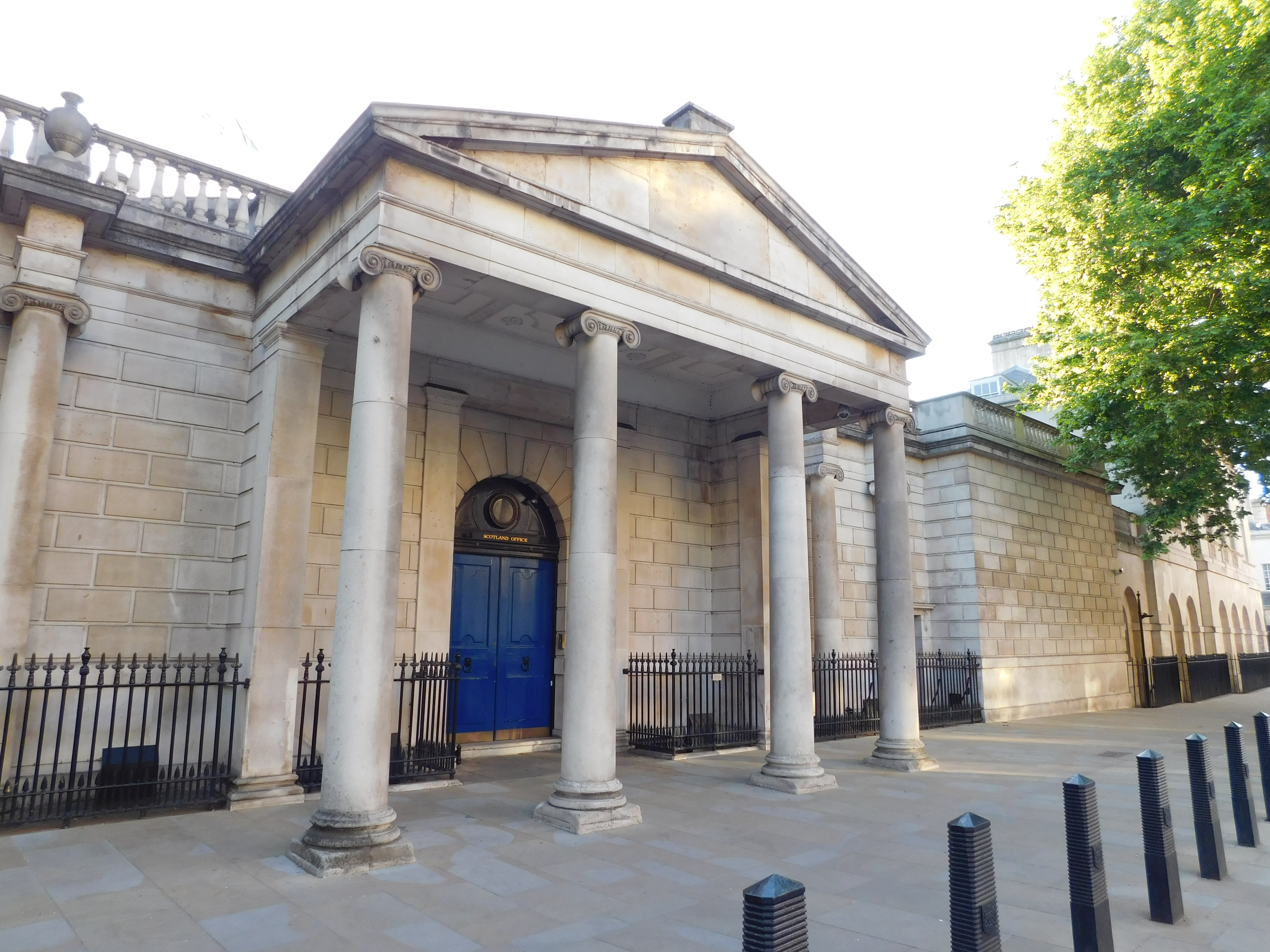 Dover House Wikidata has entry Q1031925 with data related to this item.